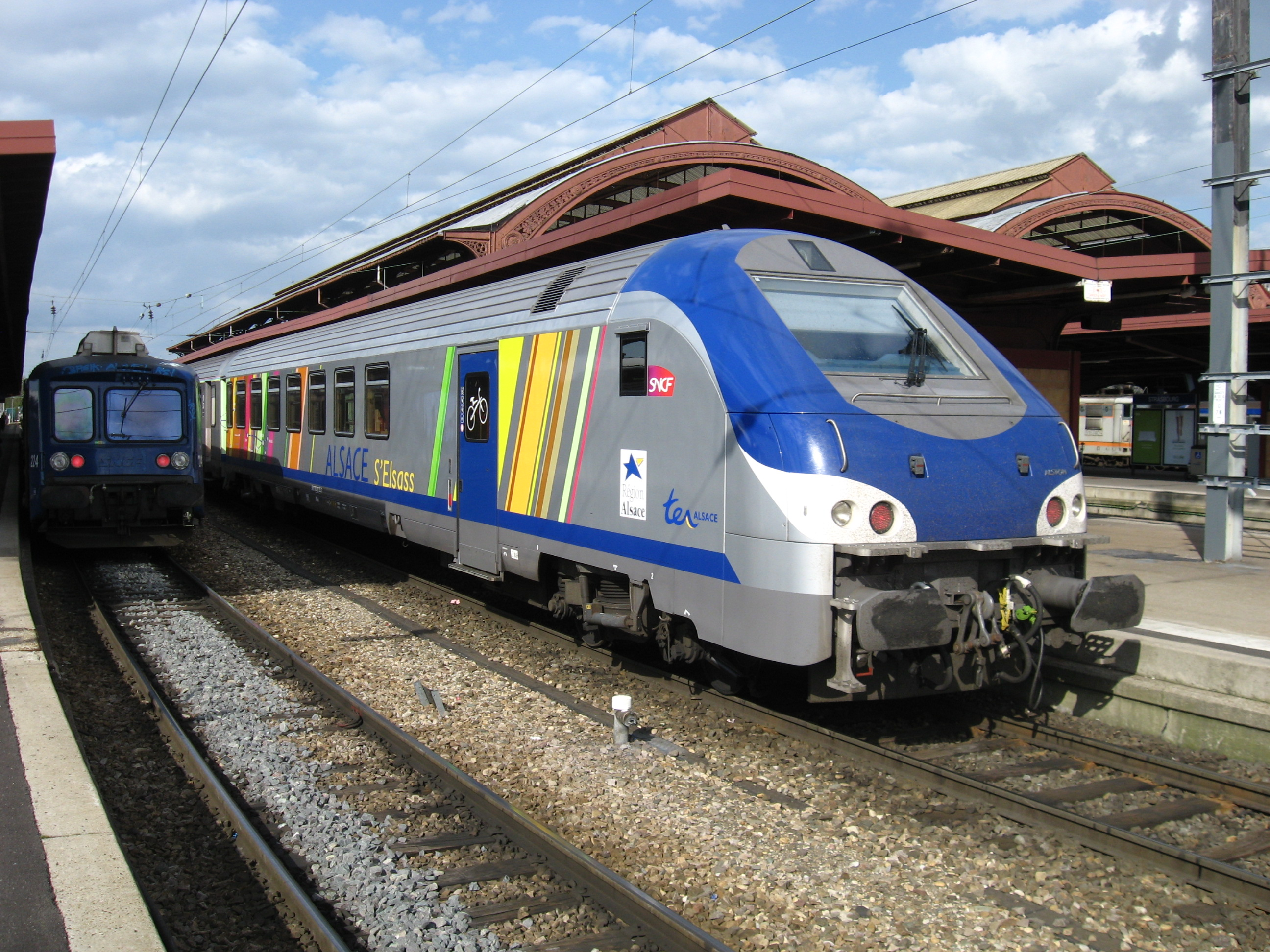 Driving trailer B5uxh of a TER 200 Alsace train. Taken in Strasbourg station